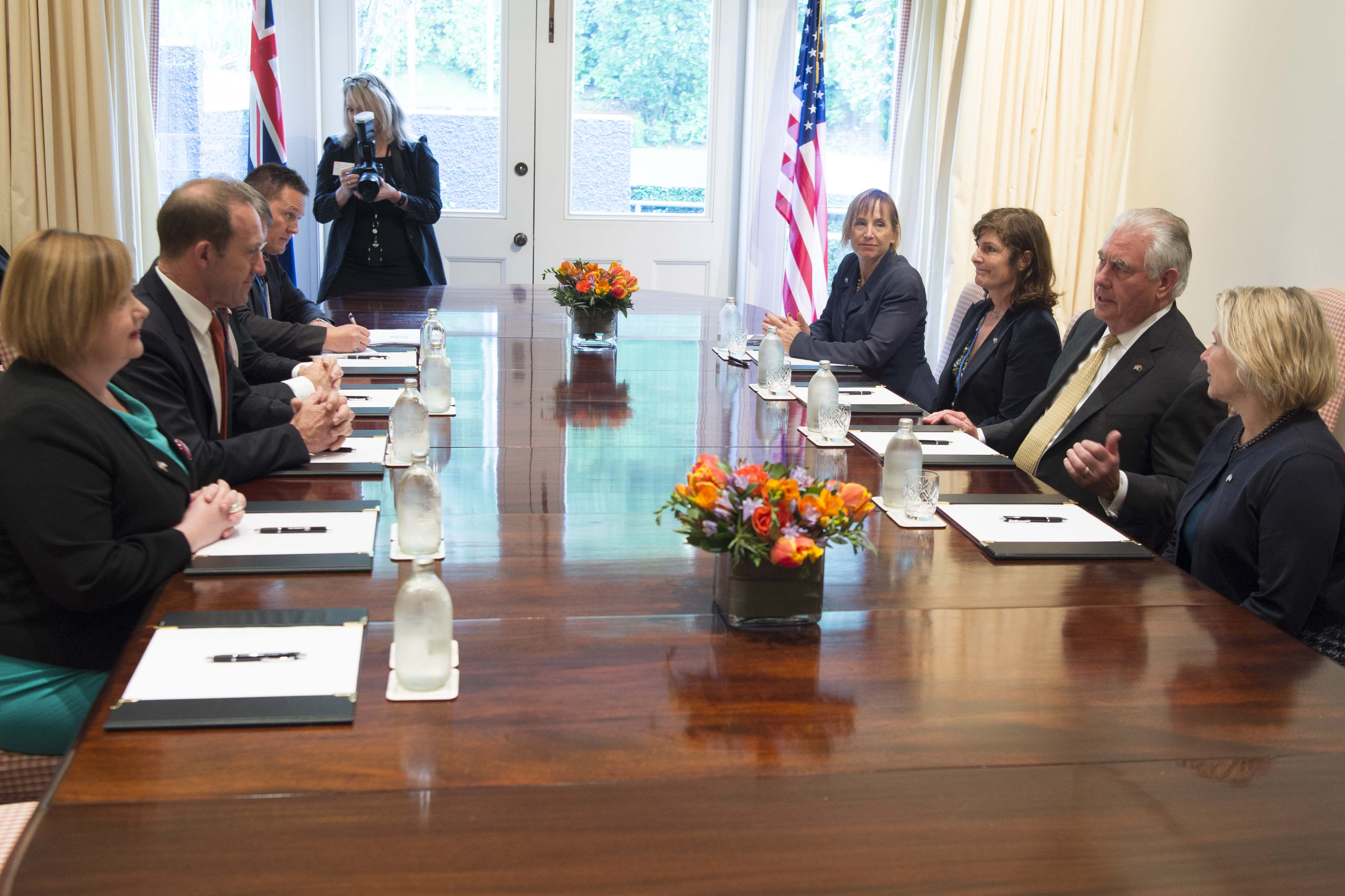 U.S. Secretary of State Rex Tillerson meets with the Leader of the New Zealand Labour Party, Andrew Little, in Wellington, New Zealand, on June 6, 2017. [State Department photo/ Public Domain]